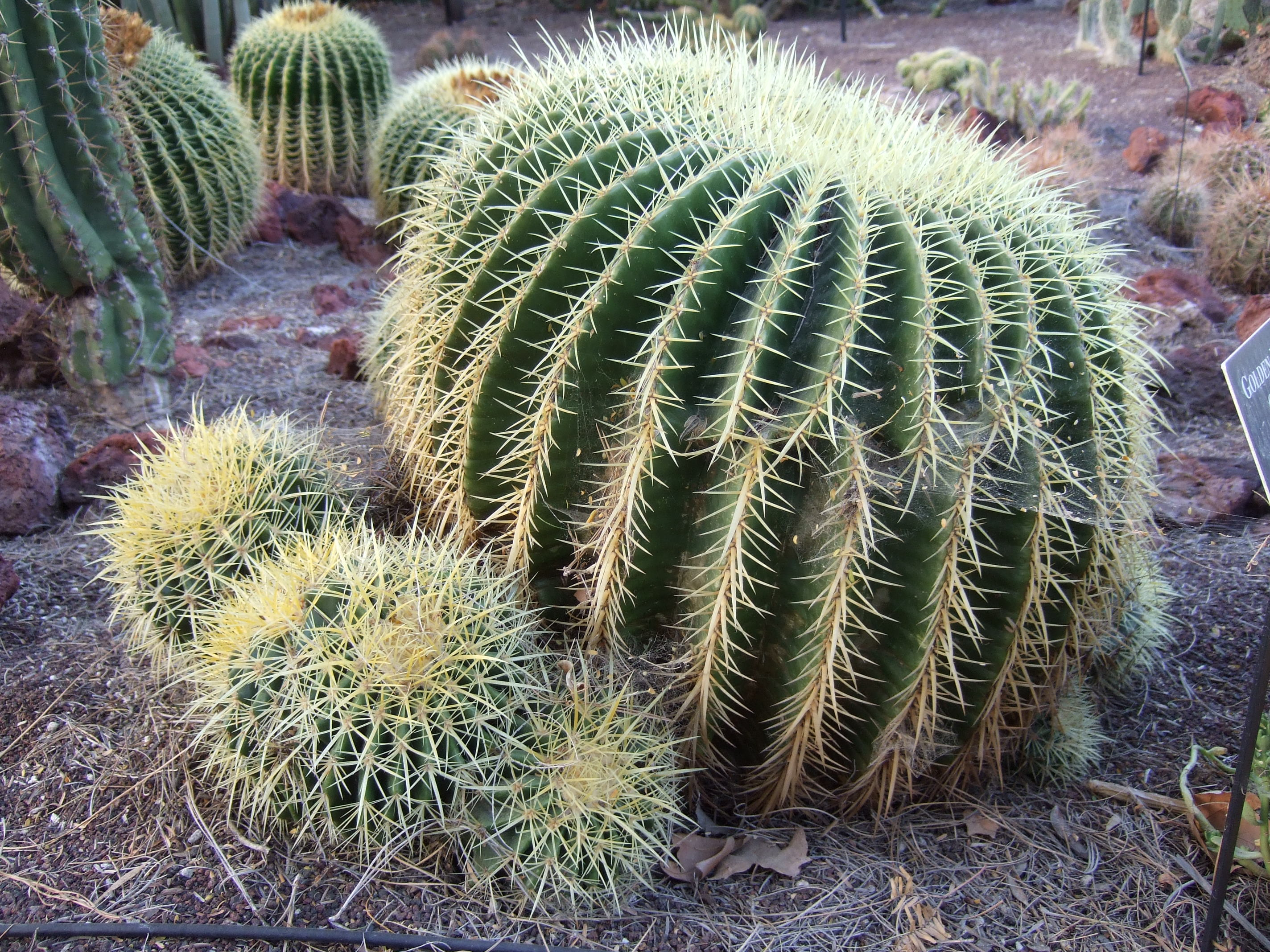 Golden Barrel Cactus, Echinocactus grusonii, native to Mexico